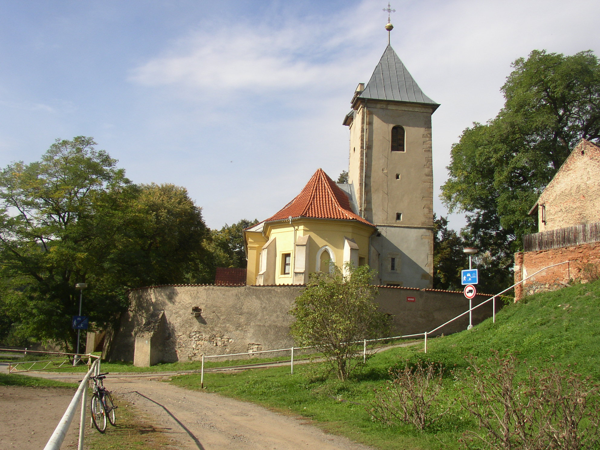 Church of St. James the Great in Minice, suburb of Kralupy nad Vltavou, Czech Republic. First mentioned in 1352 this is the oldest preserved building within limits of present town and its historical cultural hub. For many centuries until industrial development Kralupy was only a tiny village within Minice parish.